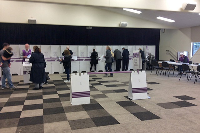 A polling place operating on election day in the 2016 Australian Federal Election. Seated to the right is an electoral official (in purple vest) distributing House of Representatives and Senate ballot papers, voters fill out their papers in polling booths along the wall, while at image left another electoral official (in purple vest) stands watch as voters cast their voting papers into the ballot box. Suburban Melbourne, Victoria, Australia.